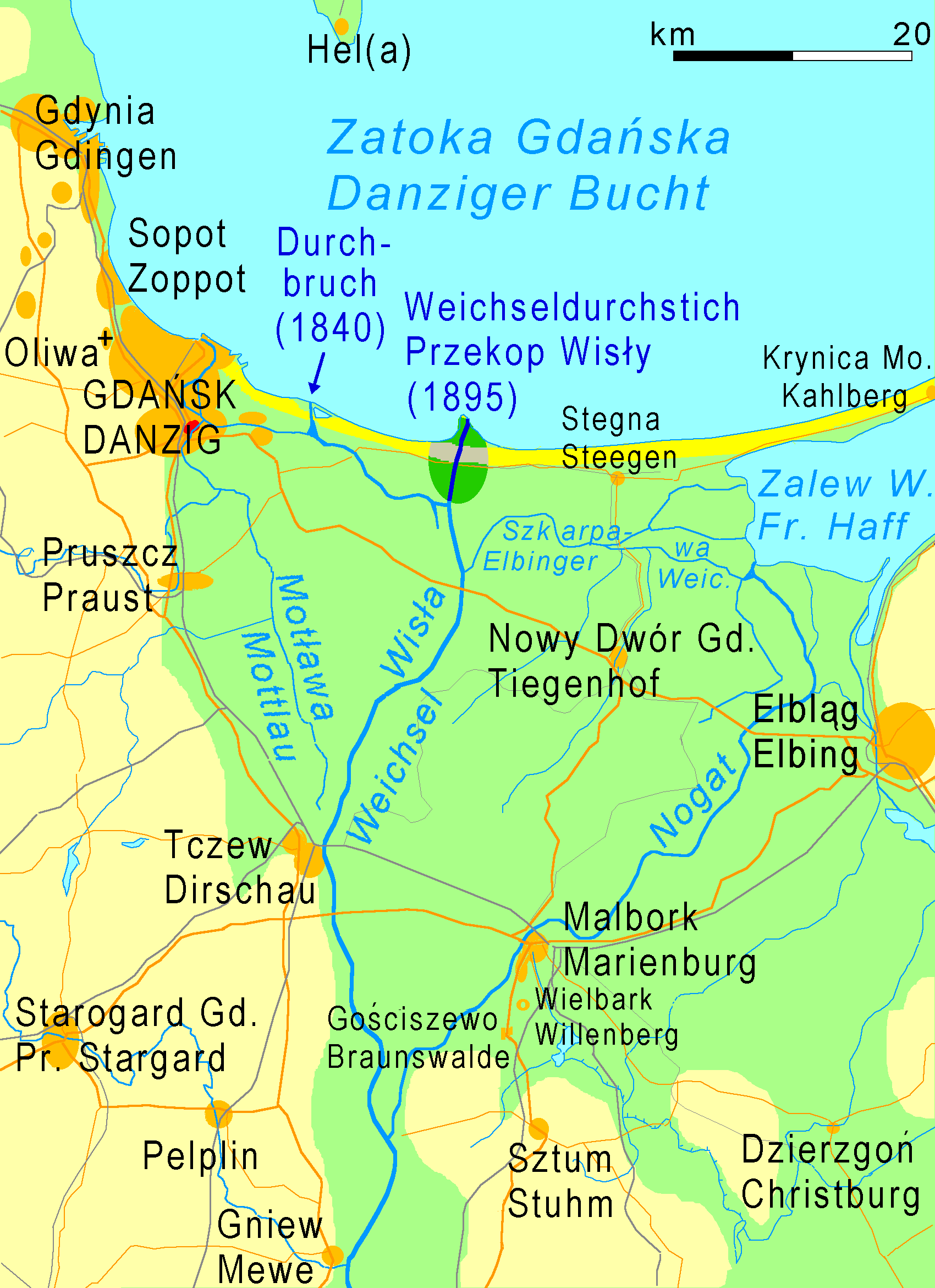 Delta of River Wistula with Polish and German names, emphasizing the canalized main branch, dug 1889–1895.